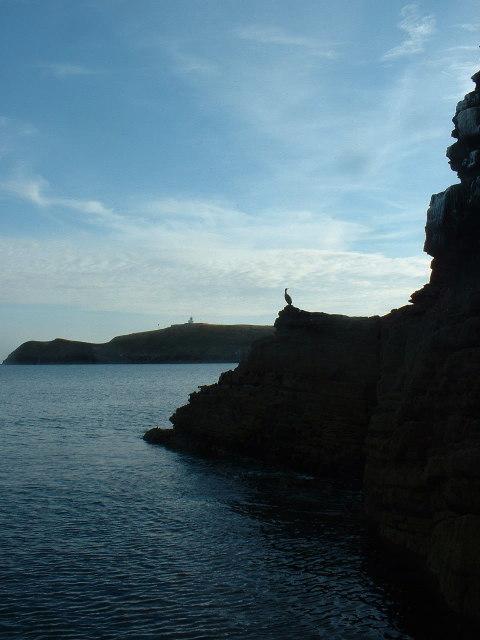 St Tudwal's Island East. A lonely Shag stands sentinel....St Tudwal's Island West visible behind